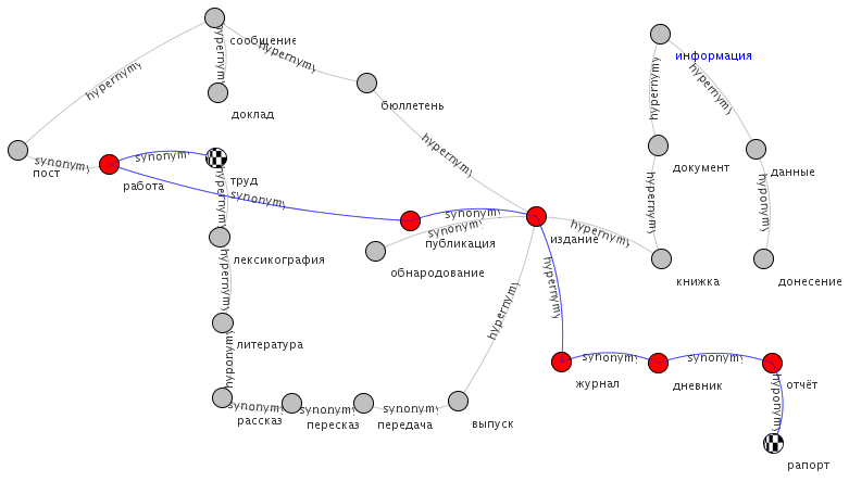 A shortest path from a Russian word “рапорт” (report) to a word “труд” (work, labour) found in a thesaurus of the Russian Wiktionary (“рапорт”, “отчёт”, “дневник”, “журнал”, “издание”, “публикация”, “работа”, “труд”) by the Dijkstra's algorithm. A shortest path computation on a graph was implemented within the Java Universal Network / Graph Framework (JUNG). See Semantic network.